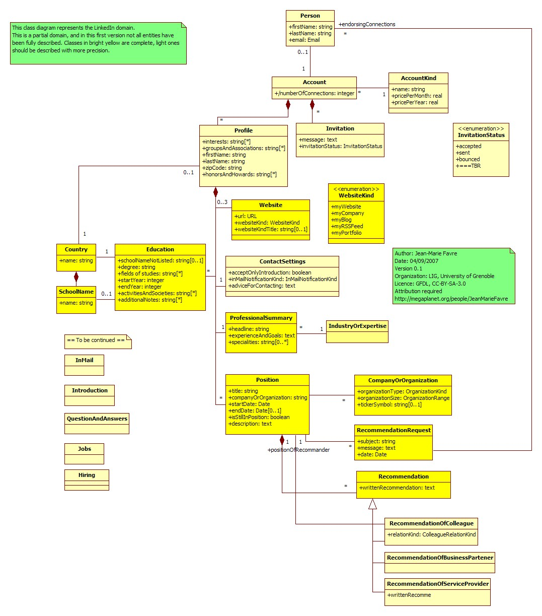 This UML diagram describes the domain of LinkedIn social networking system.